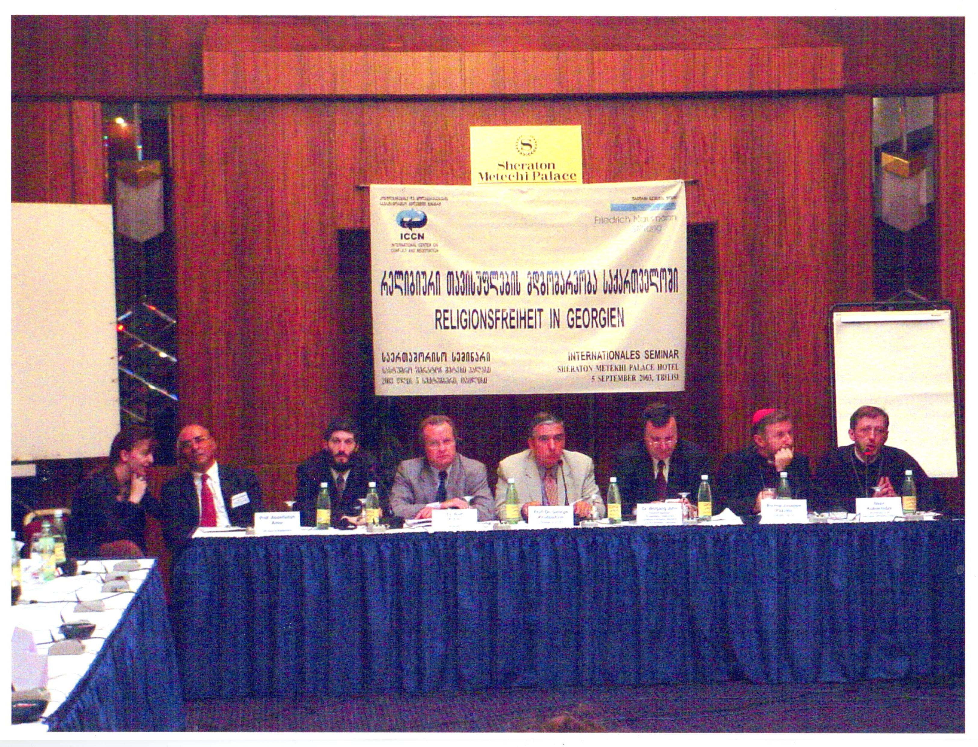 george kutsishvili